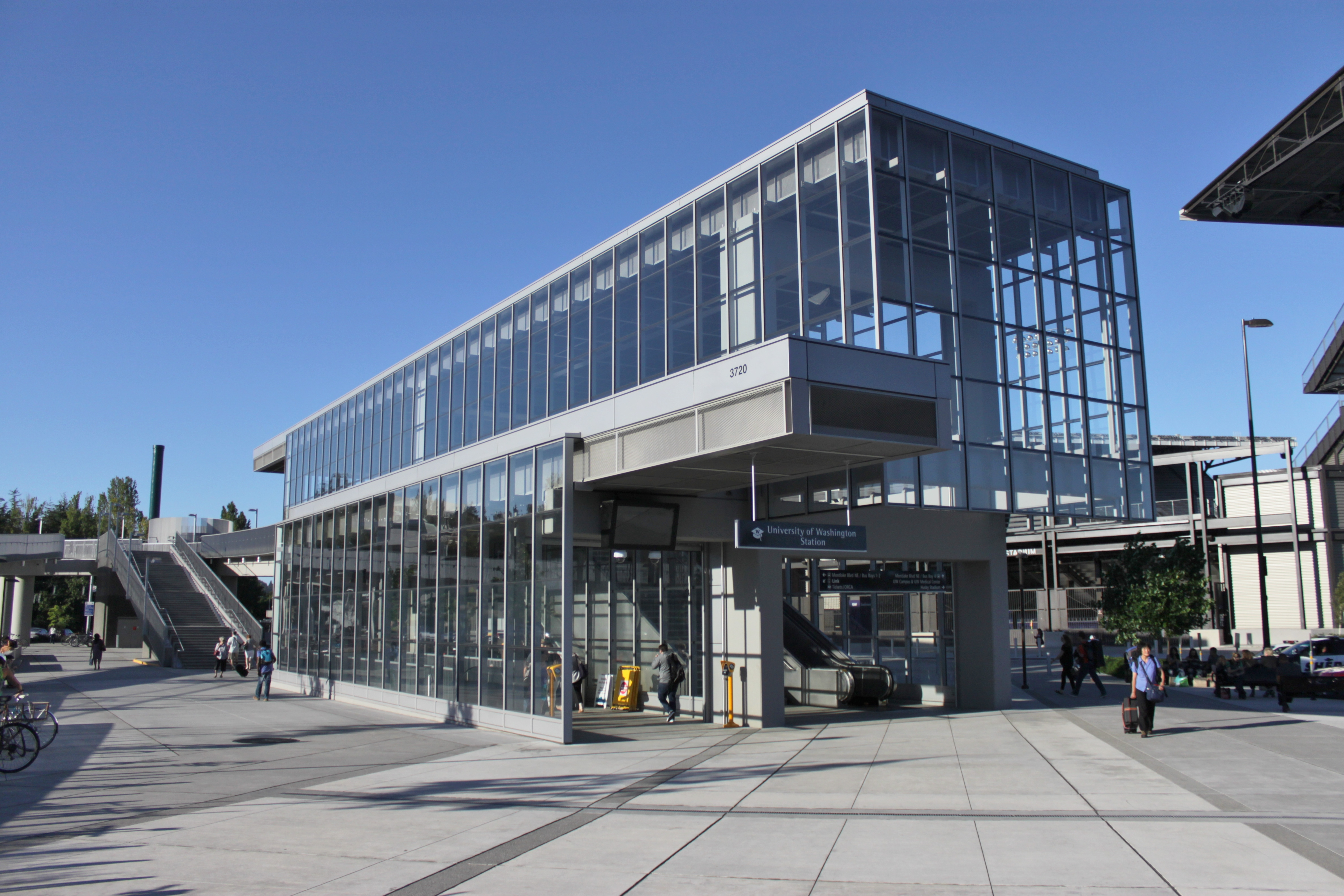 The entrance to University of Washington station, in front of Husky Stadium in Seattle, Washington